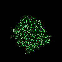 /2 (exploding) "Seeds" phoenix, minimal Created by SPW from wikipedia en "I created this image, and release any natural copyrights that I may hold on it."